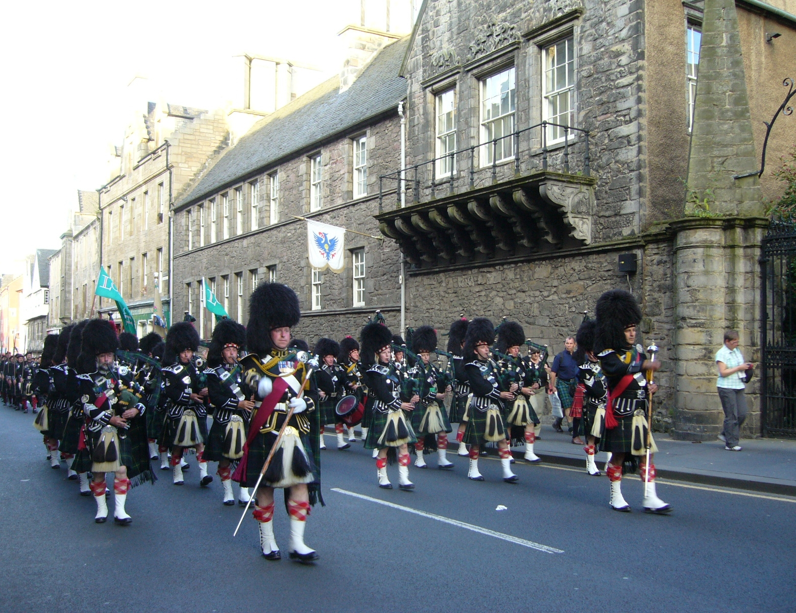 Lonach Highlanders and The Lonach Pipe Band. Part of a parade for the International Clan Gathering of 2009. "Music they have, but not the harmony of the spheres, but loud terrant [thunderous] noises, like the bellowing of beasts; the loud bagpipe is their chief delight, stringed instruments are too soft to penetrate the organs of their ears that are only pleased with sounds of substance." -- Thomas Kirke, A Trip To Barbarous Scotland, 1708